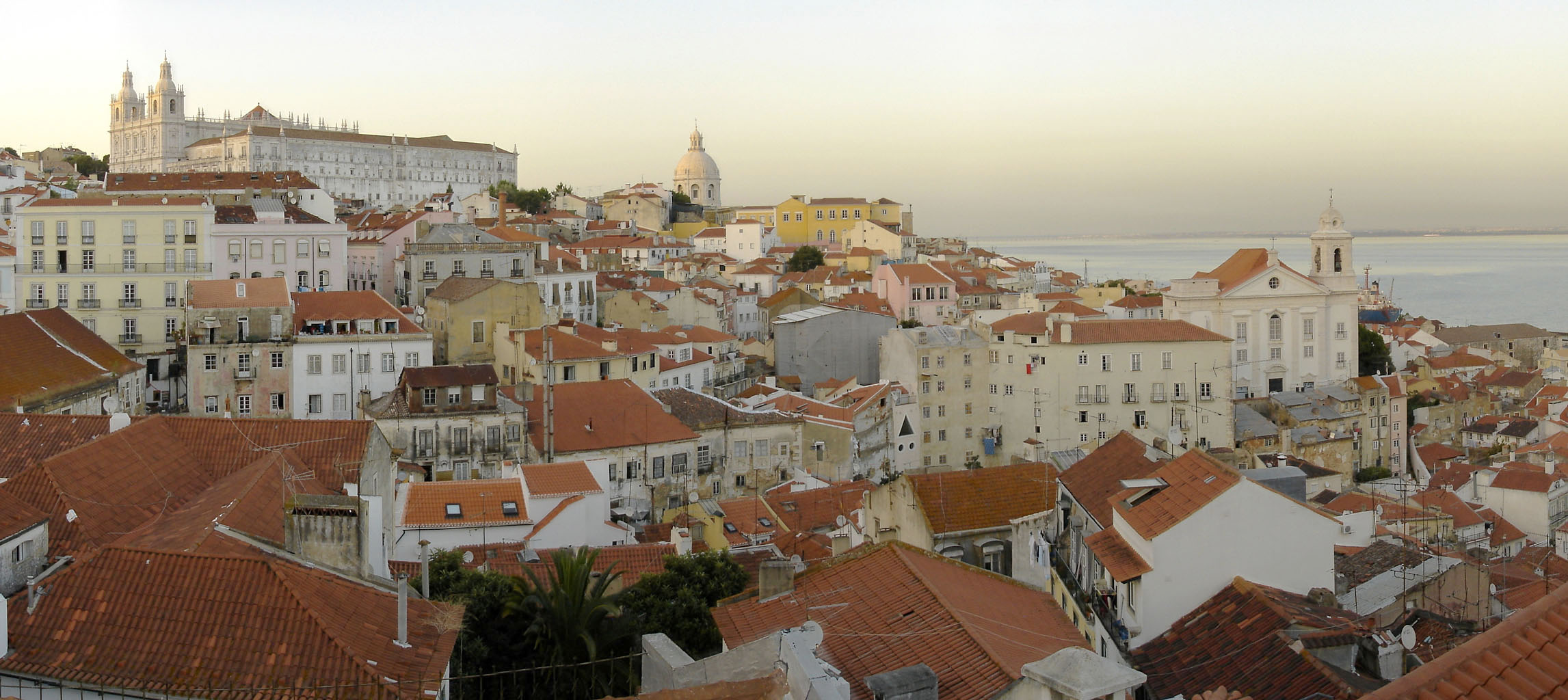 View of Alfama from the Miradouro of Santa Luzia in Lisbon, Portugal